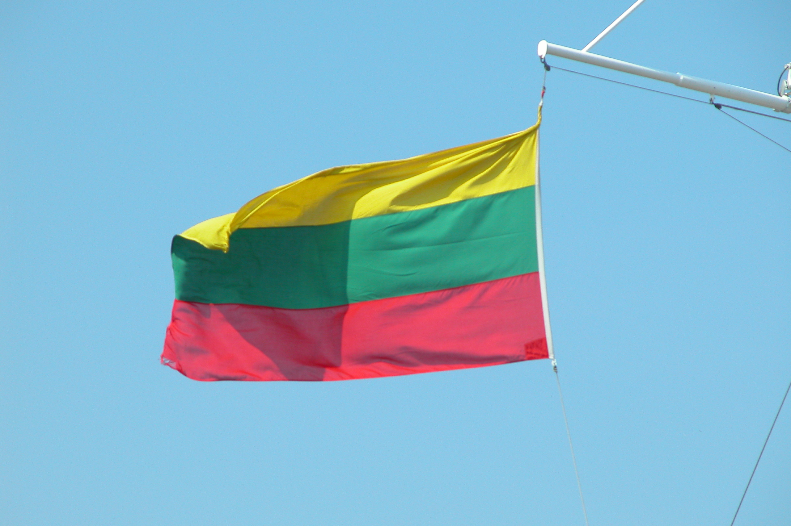 Flag of Ærø The flag originates from Christian, duke of Ærø (a cousin of the Danish king Christian 4th) around 1622 to 1633. The upper and lower yellow and red colors were his colours - while the green in the middle symbolizes the green island: Ærø. The original flag was made from a special, thick, woollen fabric, and its size was 2.83 x 2.75 m (120 x 117 Danish inches).